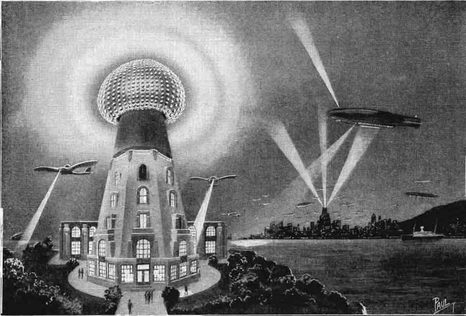 A 1925 artist's conception of what Nikola Tesla's wireless power transmission system might look like in the future. Tesla spent the latter part of his life working on the transmission of electric power through the atmosphere using radio waves. He built a large dome shaped transmitter called the Wardenclyffe tower in Shoreham, New York, which was never used. Although Tesla never got beyond a few low power demonstrations, he was an inveterate promoter and his talks on wireless power caught the imagination of the public. Hugo Gernsback, the science fiction magazine publisher, was fascinated by the idea and published a number of articles in his electronics magazines about wireless power. This futuristic painting illustrated one of the articles. The power plant with the glowing wireless transmitter tower in the foreground, based on the Wardenclyffe tower, is broadcasting power to run the futuristic aircraft and light the city in the background. Caption: "An artist's conception of Nikola Tesla's system for transmitting power by radio waves, which was proposed several years ago.